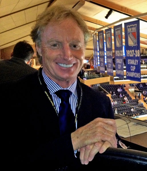 Mike Barnett's long association with the NHL includes the perspective of both a team's general manager and an agent for superstars, including Wayne Gretzky.